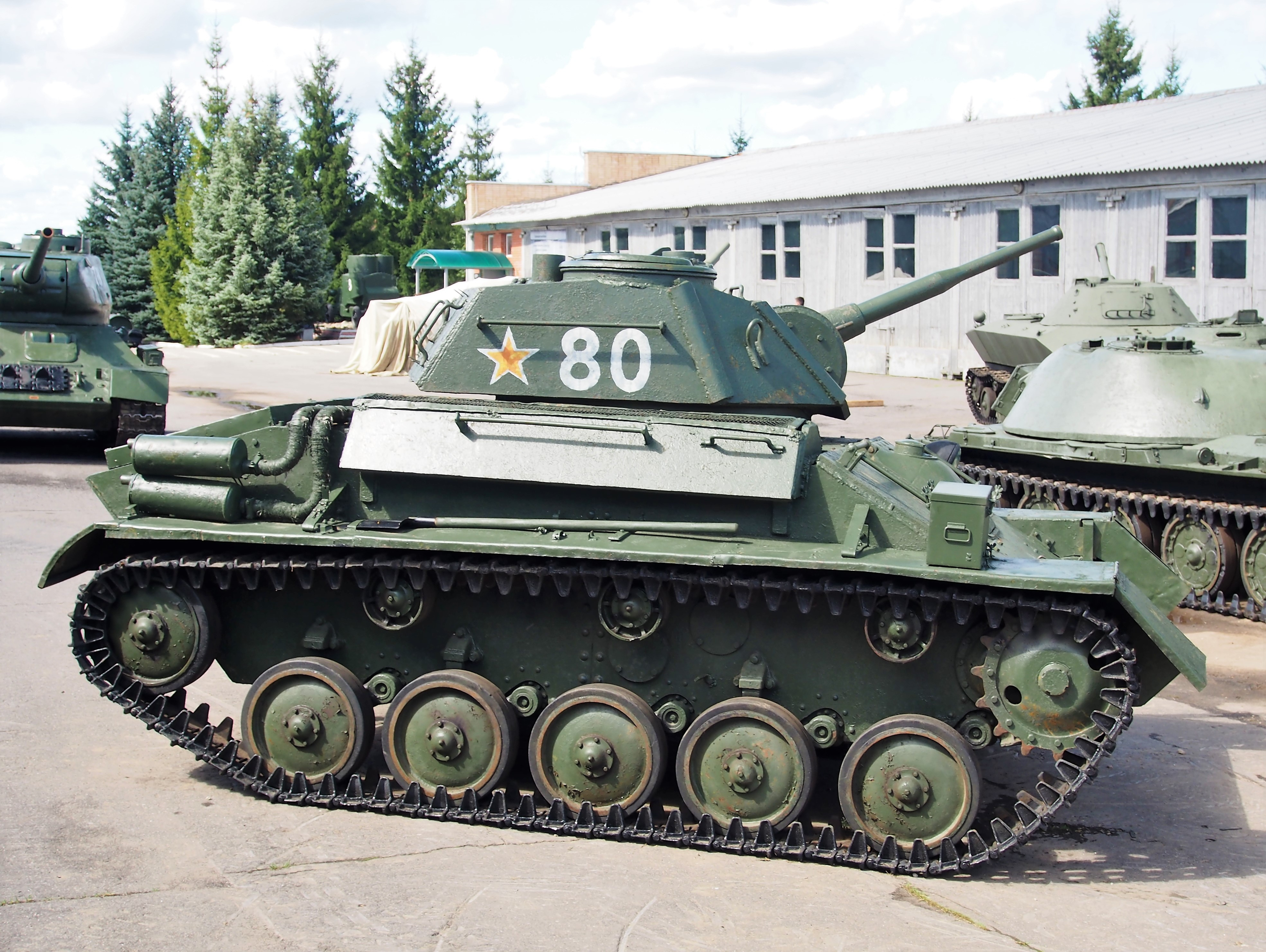 T-80 (light tank) in the Kubinka Museum.